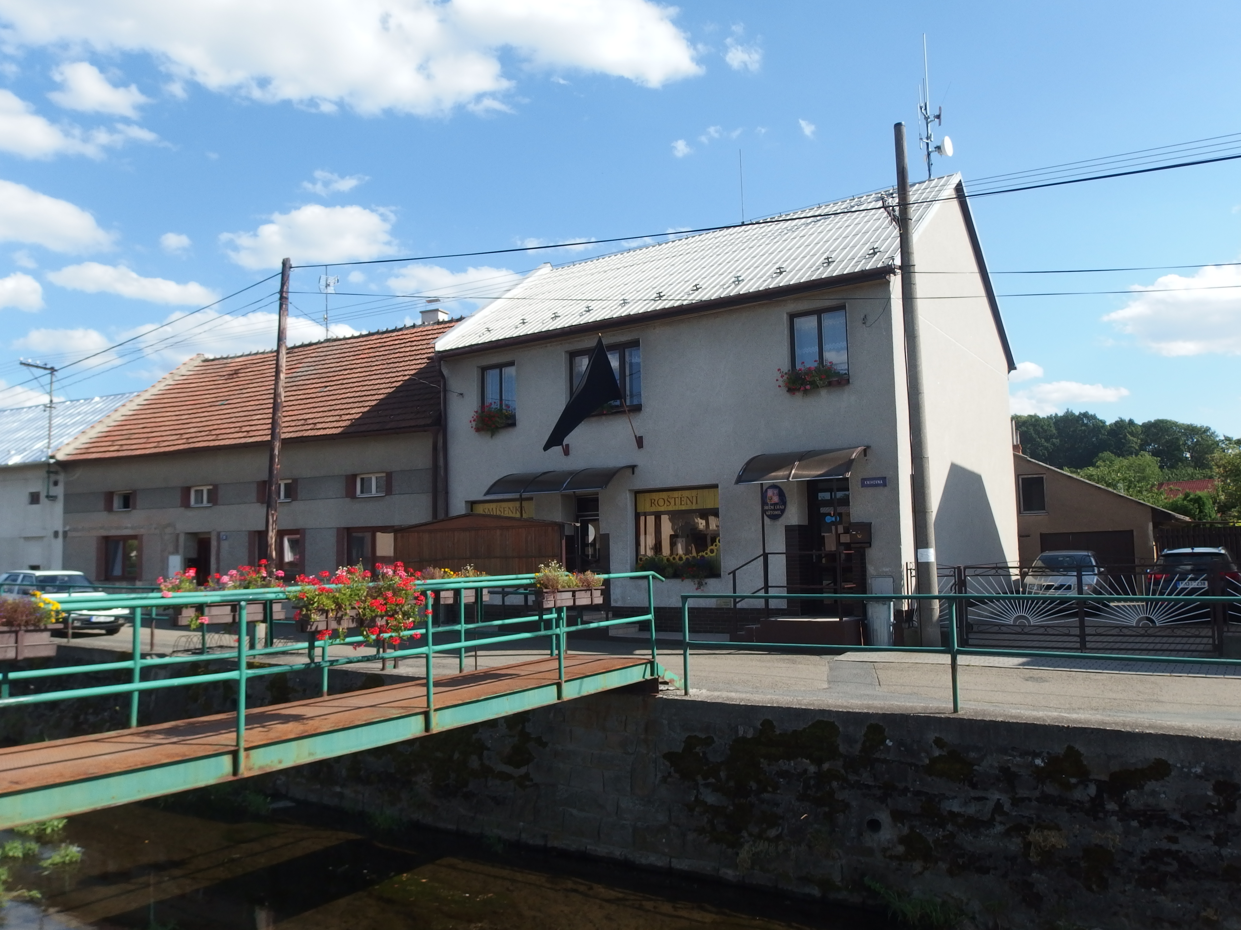 Křtomil, Přerov District, Czech Republic.